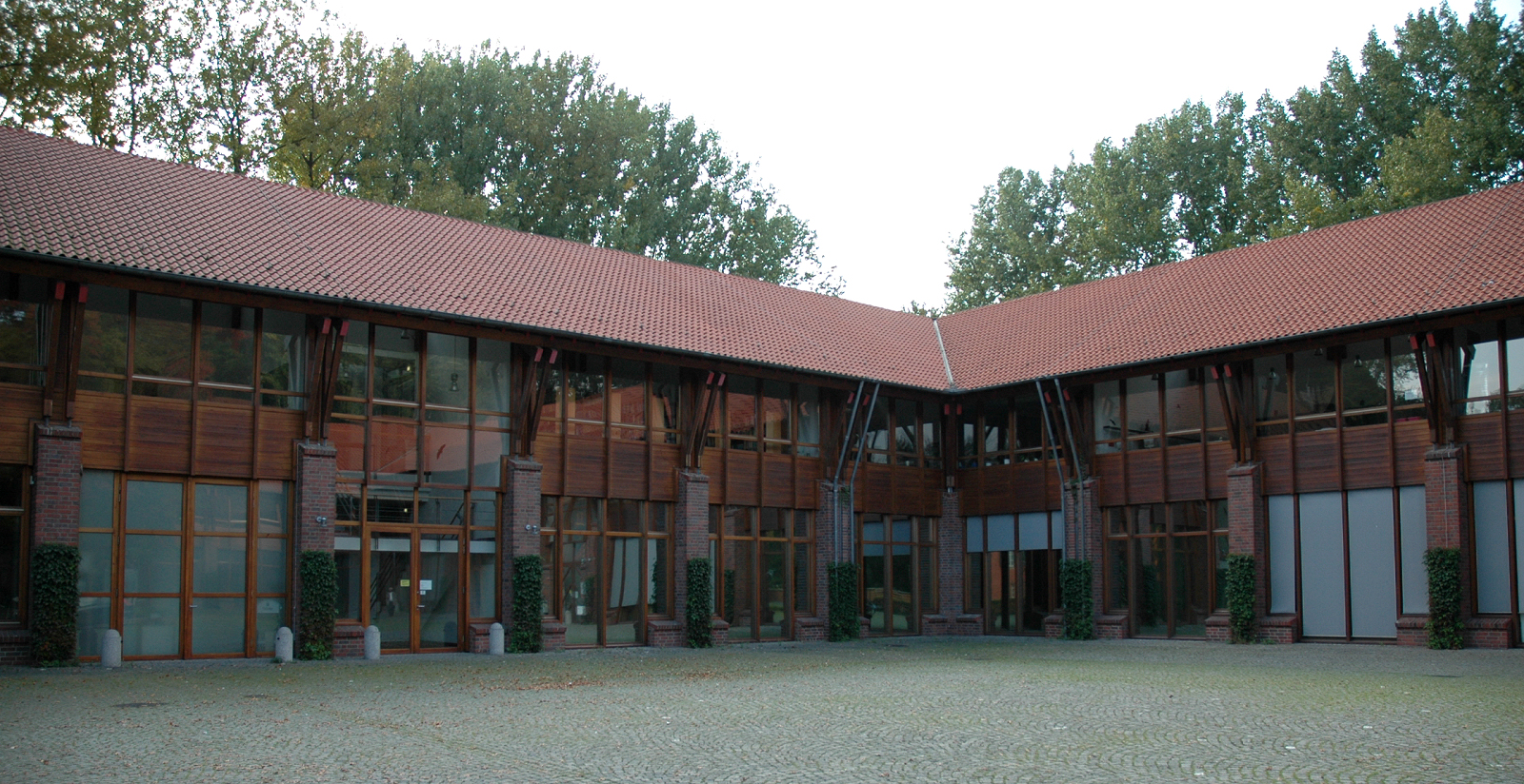 Haus Lüttinghof in Gelsenkirchen-Hassel, today's outer ward